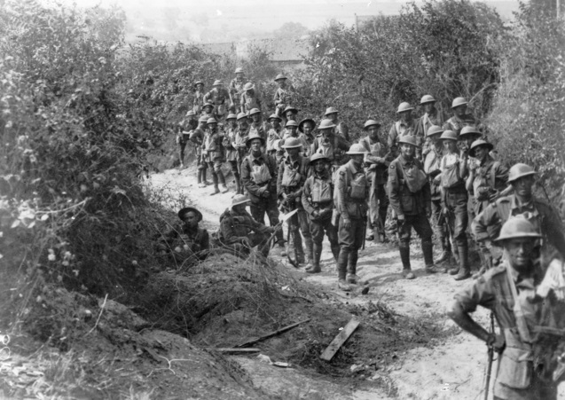 Soldiers from the Australian 1st Machine Gun Company (1st Machine Gun Battalion), rest near Chuignolles, August 1918